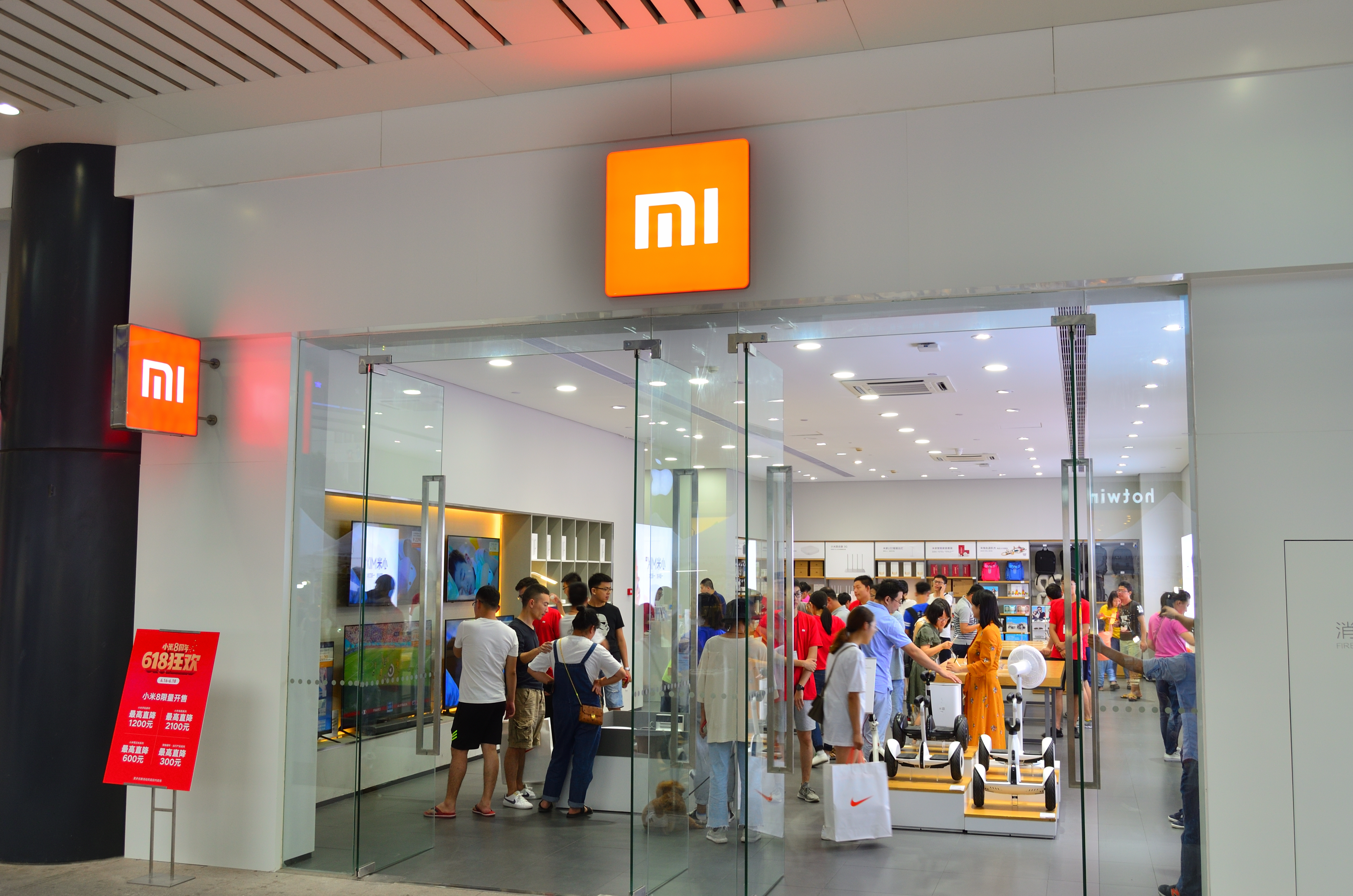 Xiaomi Hangzhou store